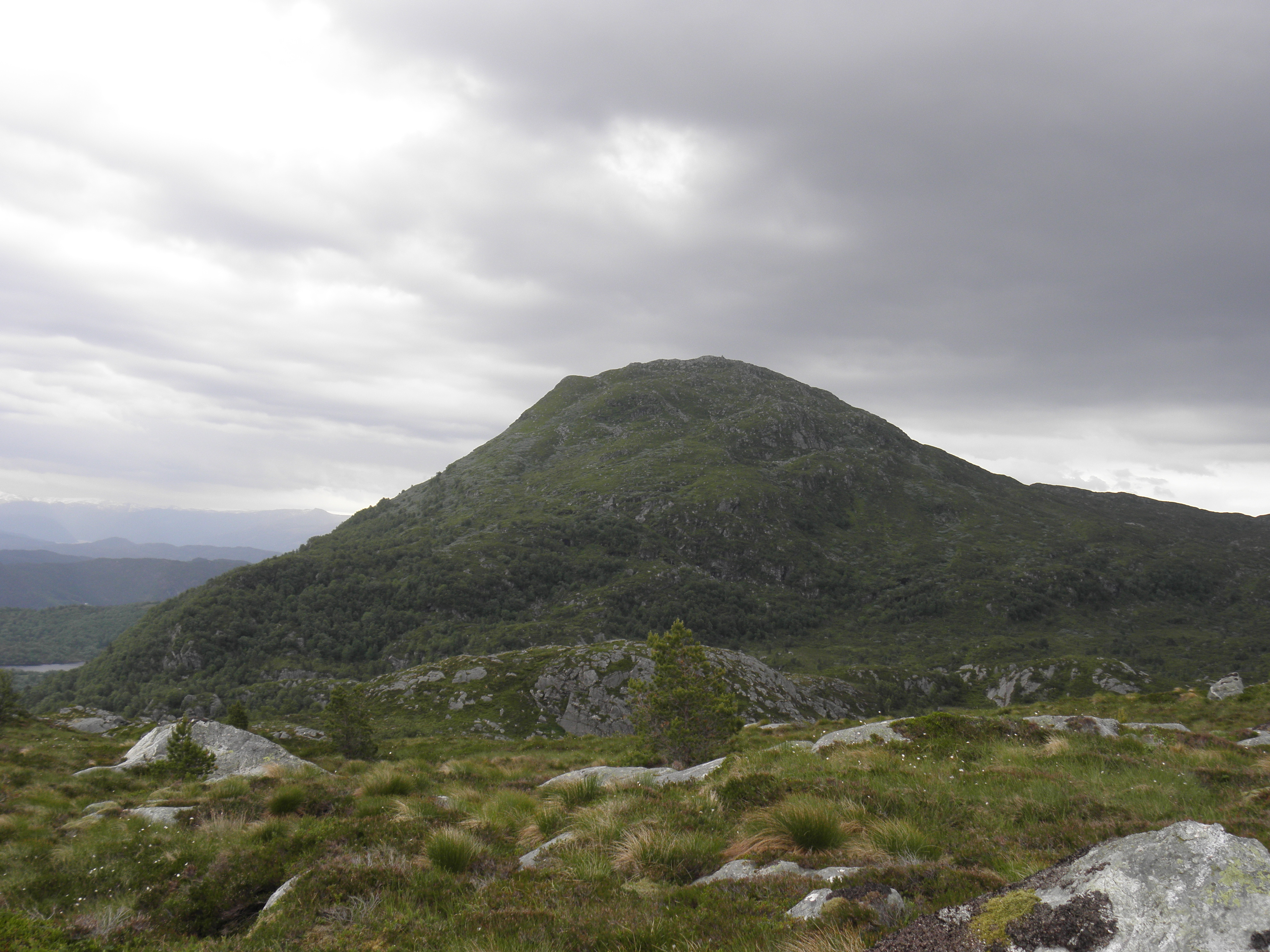 A view of Tysnessåto from the mountain Svartavassfjellet, Tysnesøy, Tysnes, Hordaland, Norway.